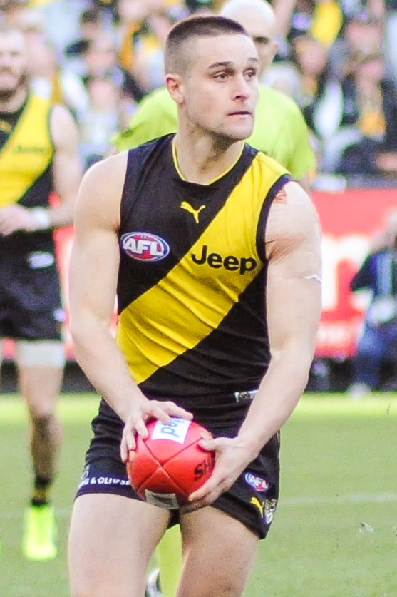 Jayden Short during the AFL round thirteen match between Richmond and Sydney on 17 June 2017 at the Melbourne Cricket Ground in Melbourne, Victoria.